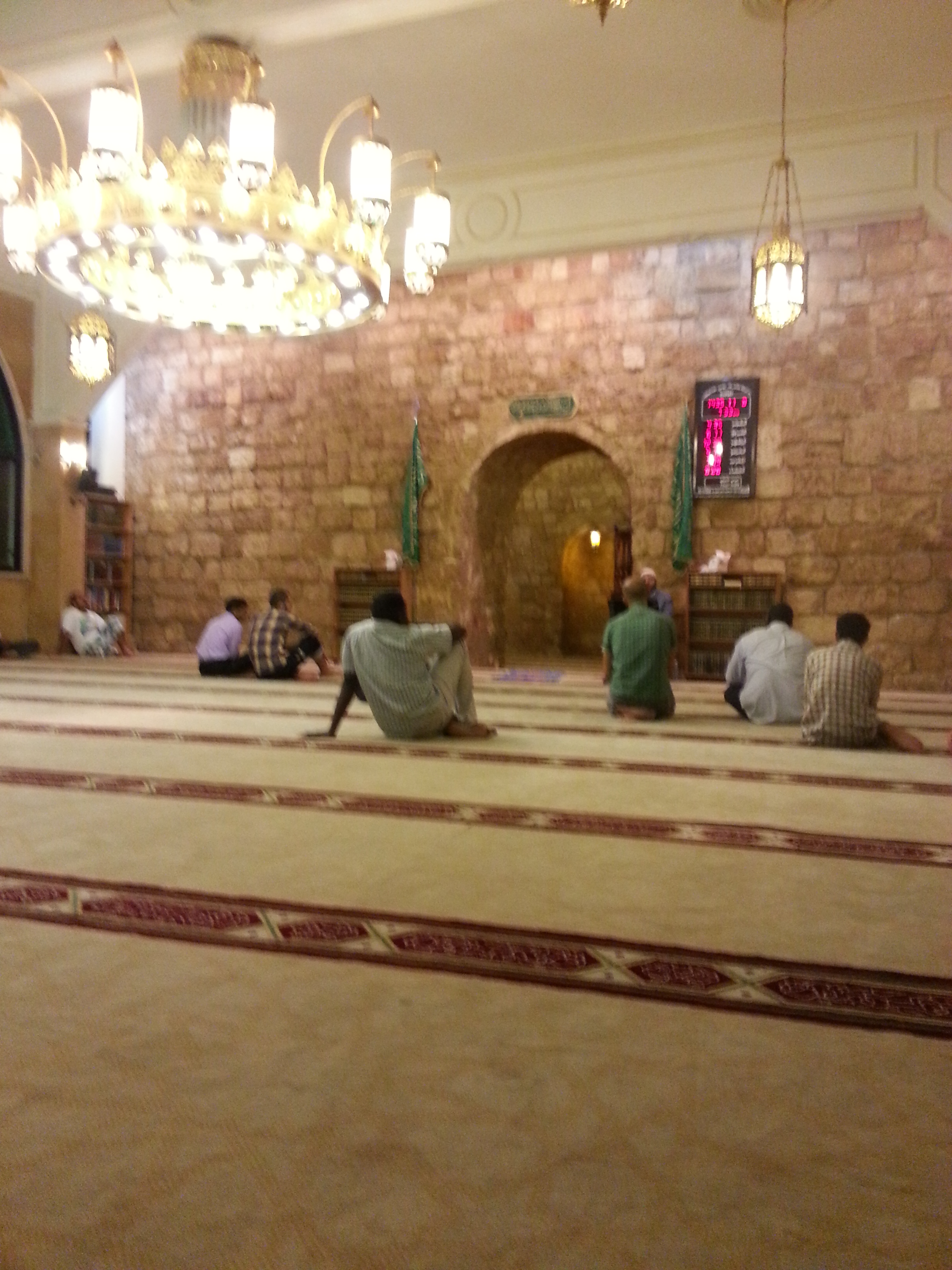 Interior of the Mosque of Our lord Al--Khiḍr, Also known in Beirut as "Mar (Saint) Georges Al--Khiḍr". It is located in Dawra, an area on the eastern boarders of the City.